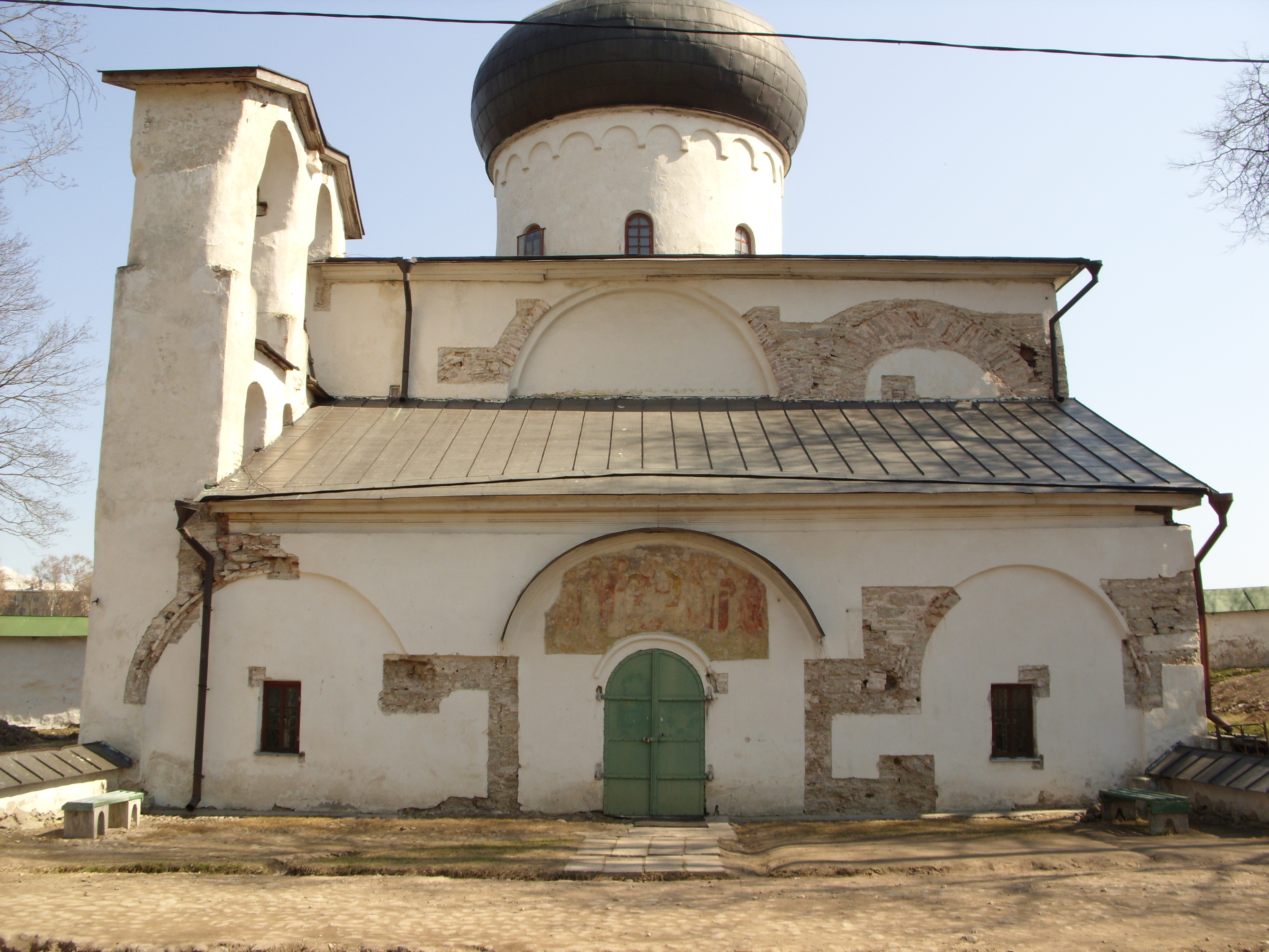 Pskov Sobor Mirozhskogo monostyrja